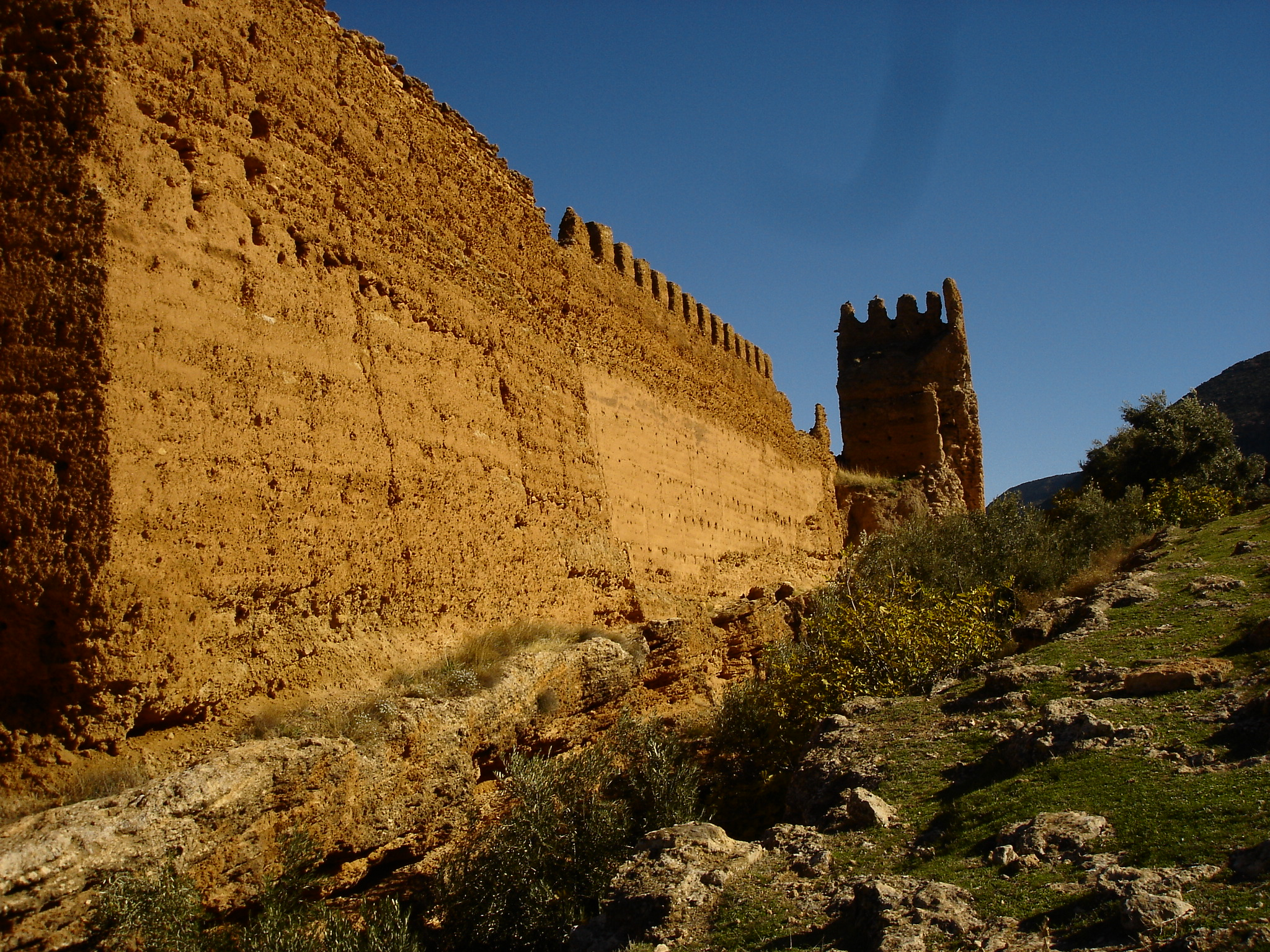 The kasbah of Marinid in Debdou village, Morocco oriental.